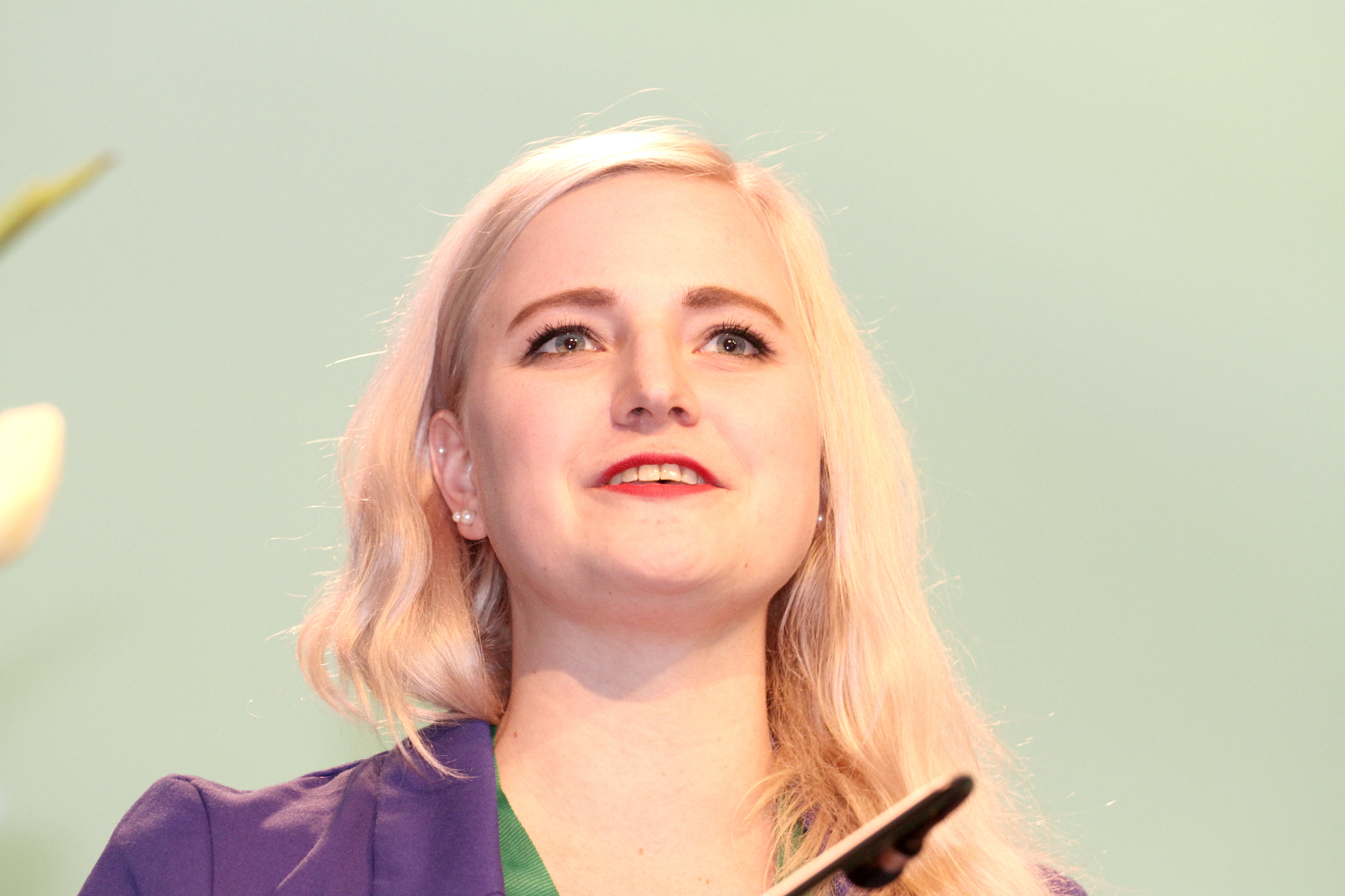 Ada Arnstad